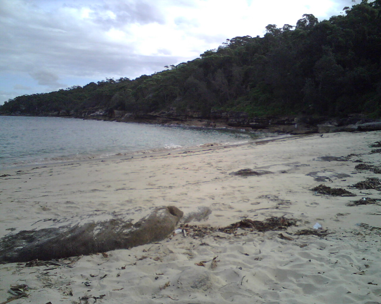 View while standing on Obelisk Beach.